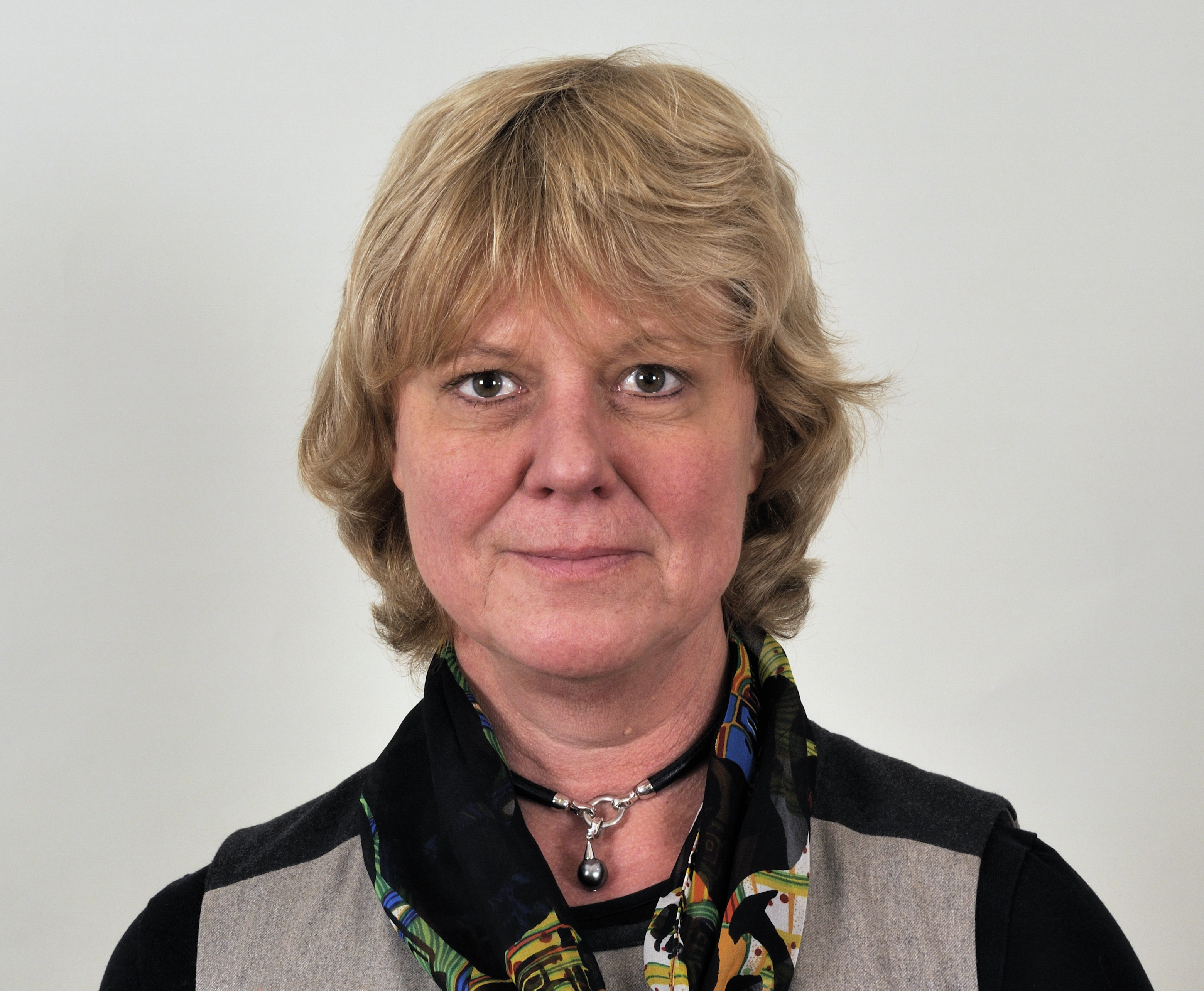 Heike Habermann, Hessian politician (SPD) and member of the Landtag of Hesse.